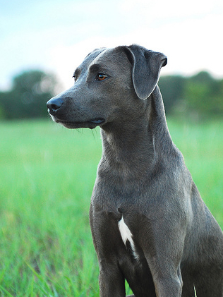 Blue Lacy